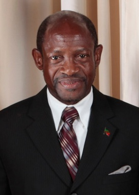 Denzil L. Douglas poses for a photograph during a reception at the Metropolitan Museum in New York.